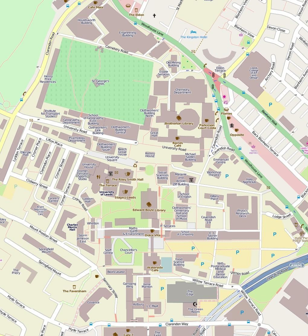 A map of the main campus of the University of Leeds. Taken from Open Street Map in November 2012.